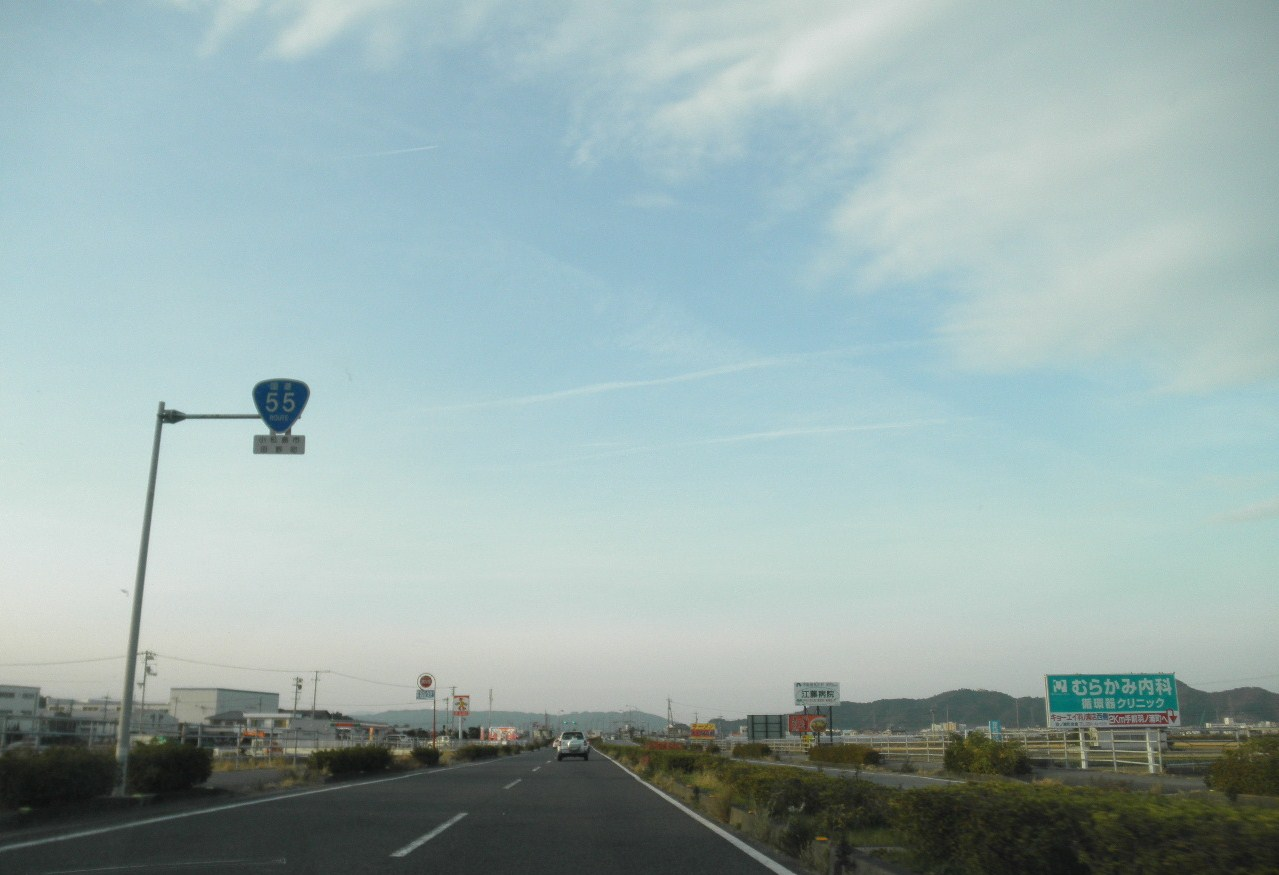 anotown 赤石南 Komatsushimacity Tokushimapref Route 55 Tokushimaminami bypass